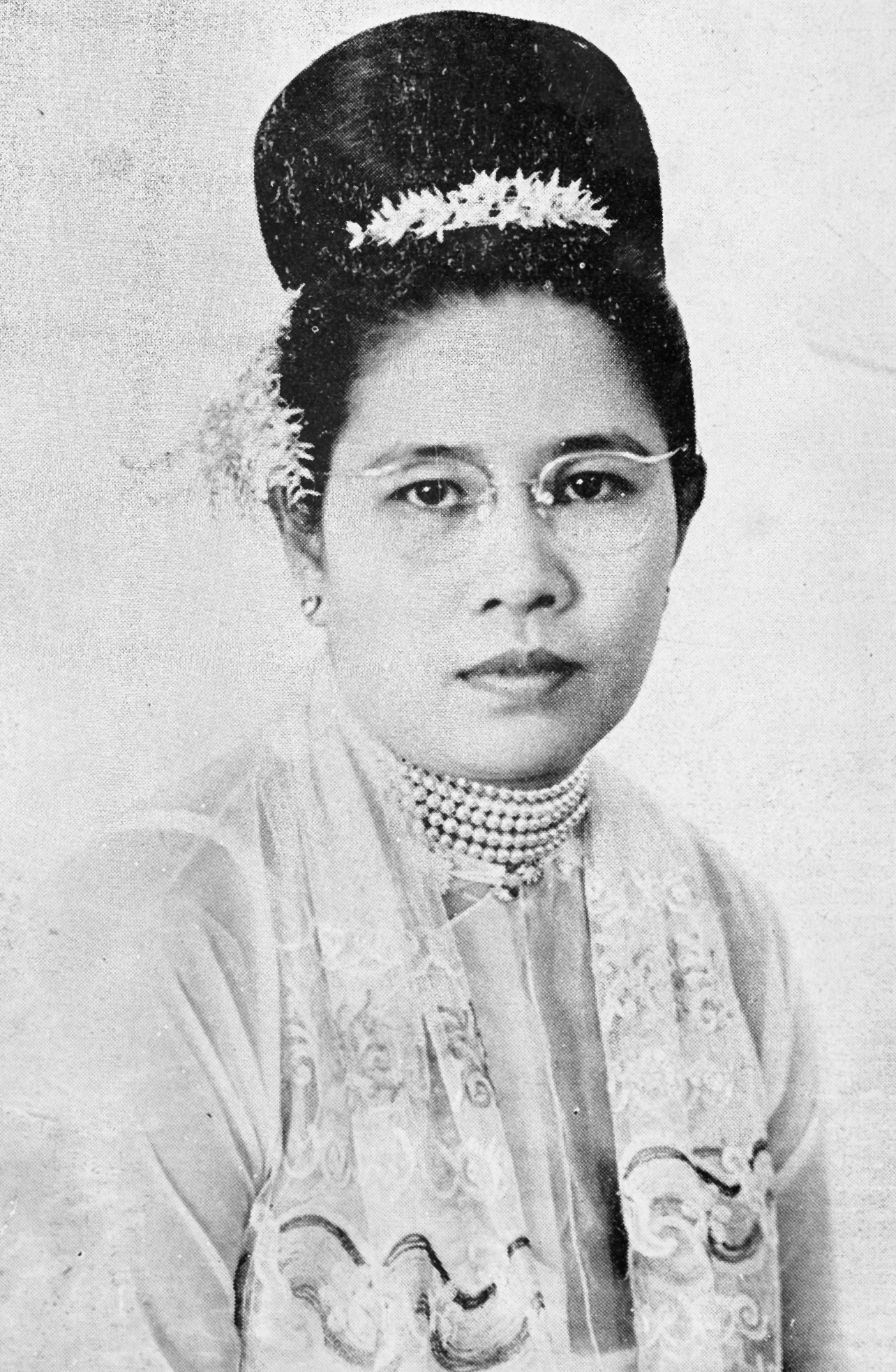 Mya Yi, wife of the premier of Burma U Nu (ဦးနု), ca. 1955.